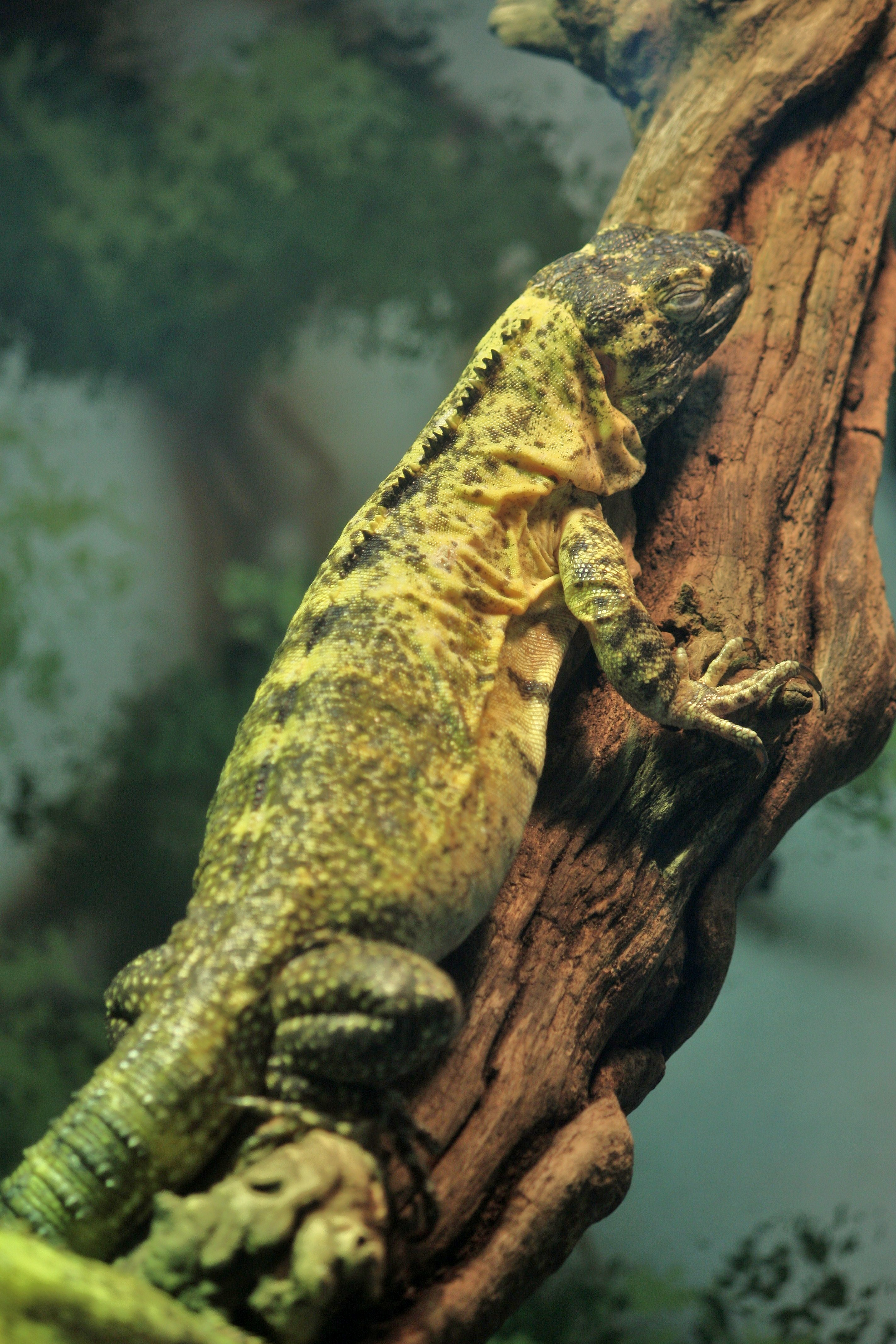 Mexican Spiny-tailed Iguana (Ctenosaura pectinata). Denver Zoo, Denver, Colorado.